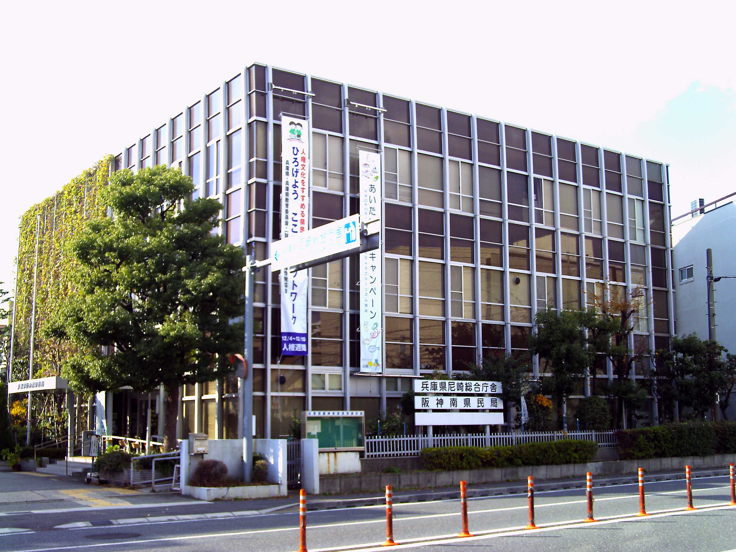 Hyogo_Pref_Amagasaki_Office